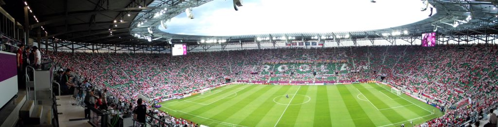 Interior panorama of the Wrocław Municipal Stadium during Czech Republic - Poland, UEFA Euro 2012.